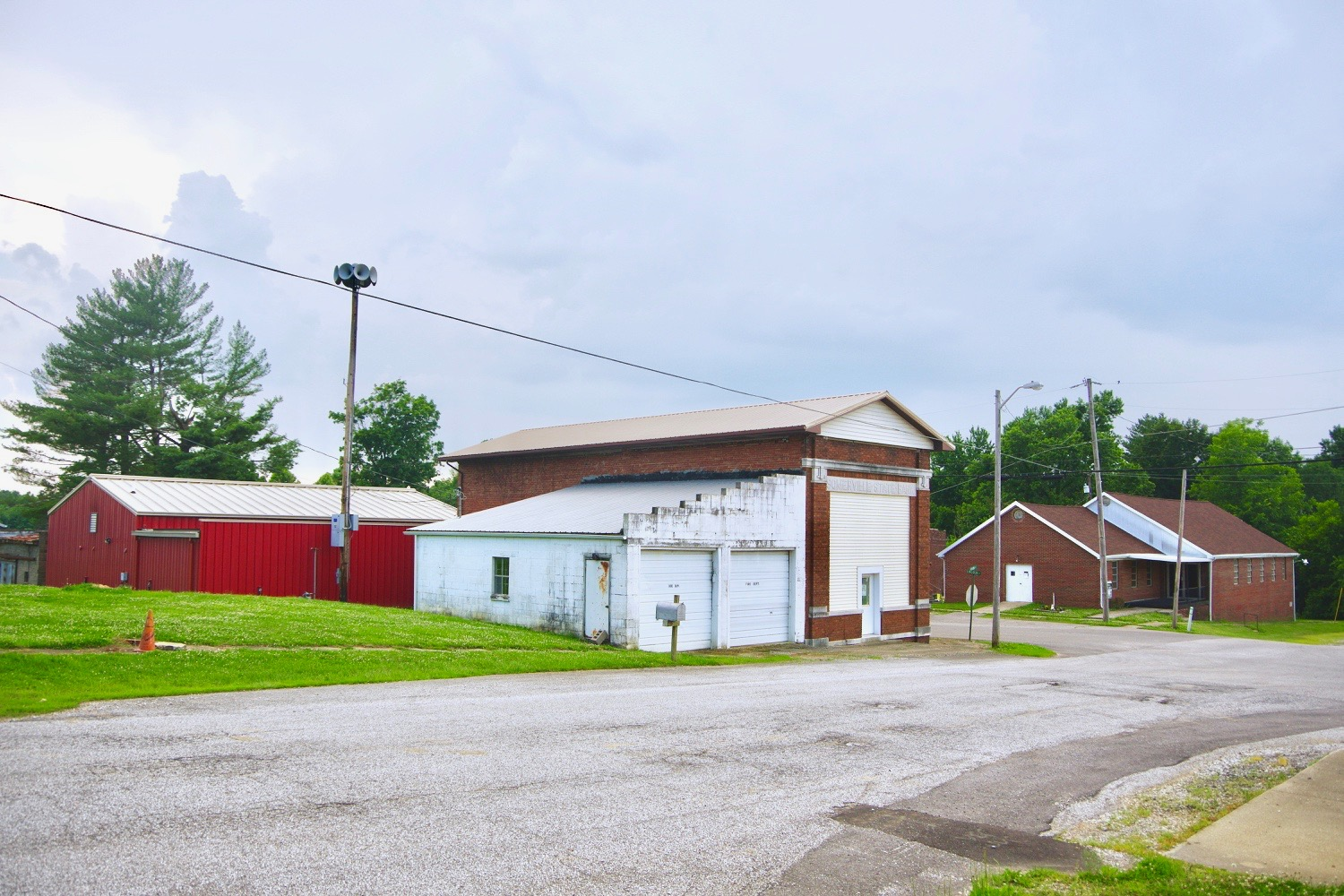 The old Somerville State Bank building and other structures at the corner of Main and Lincoln in Somerville, Indiana, United States.